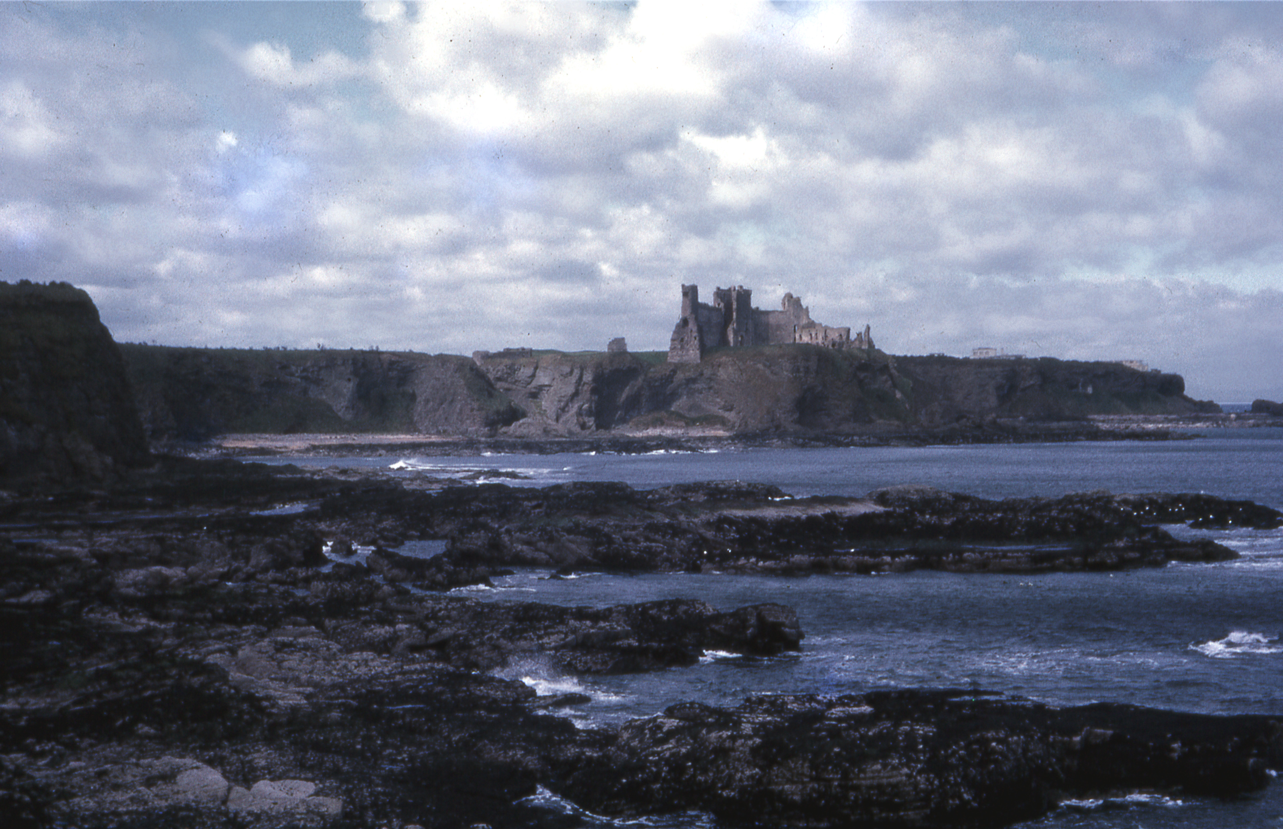 Tantallon Castle, East Lothian, Scotland